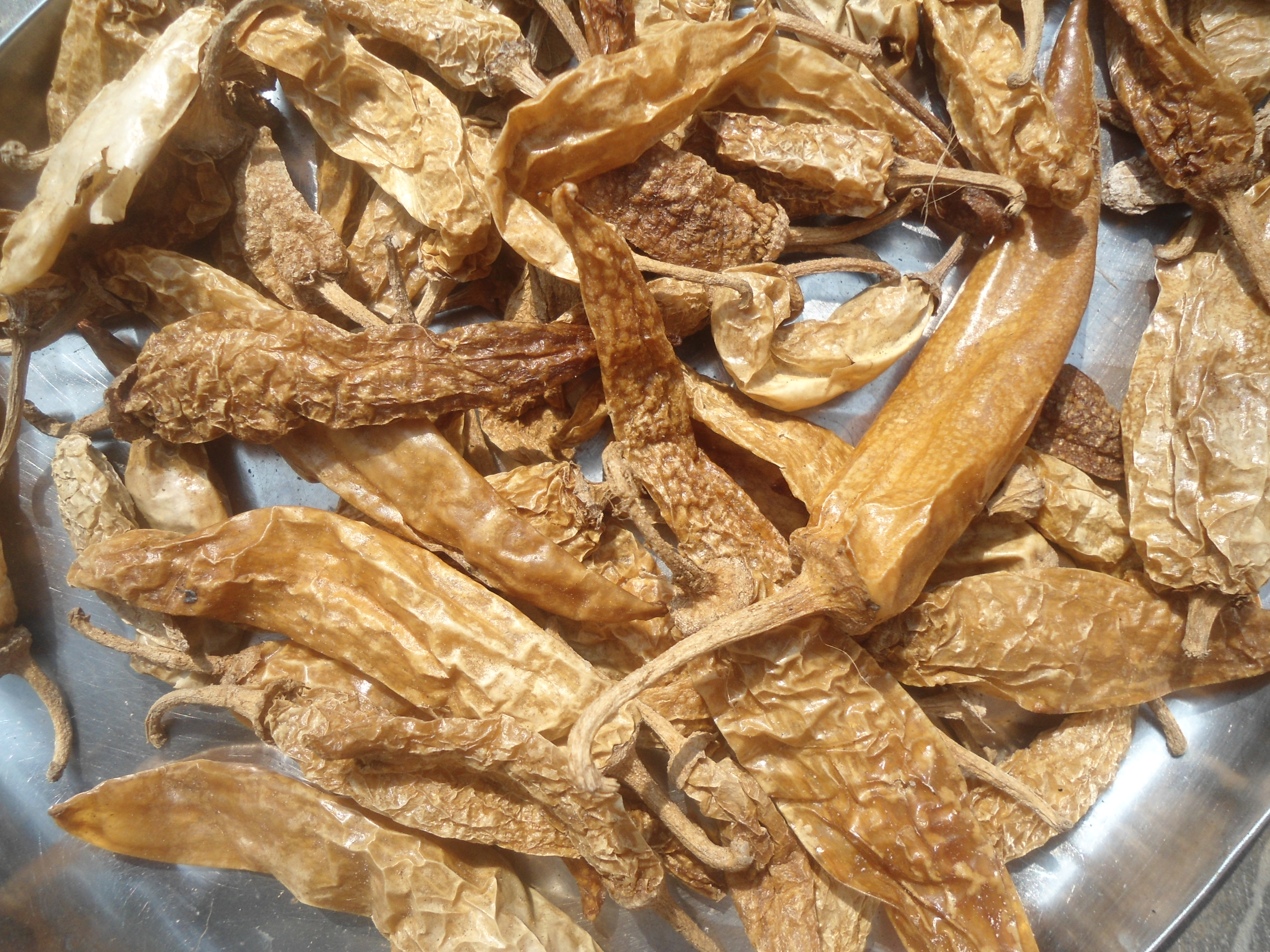 Dried Capsicum for Chili based food, Adavivaram, Simhachalam